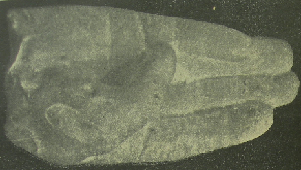 Hand mold from a Franek Kluski seance.